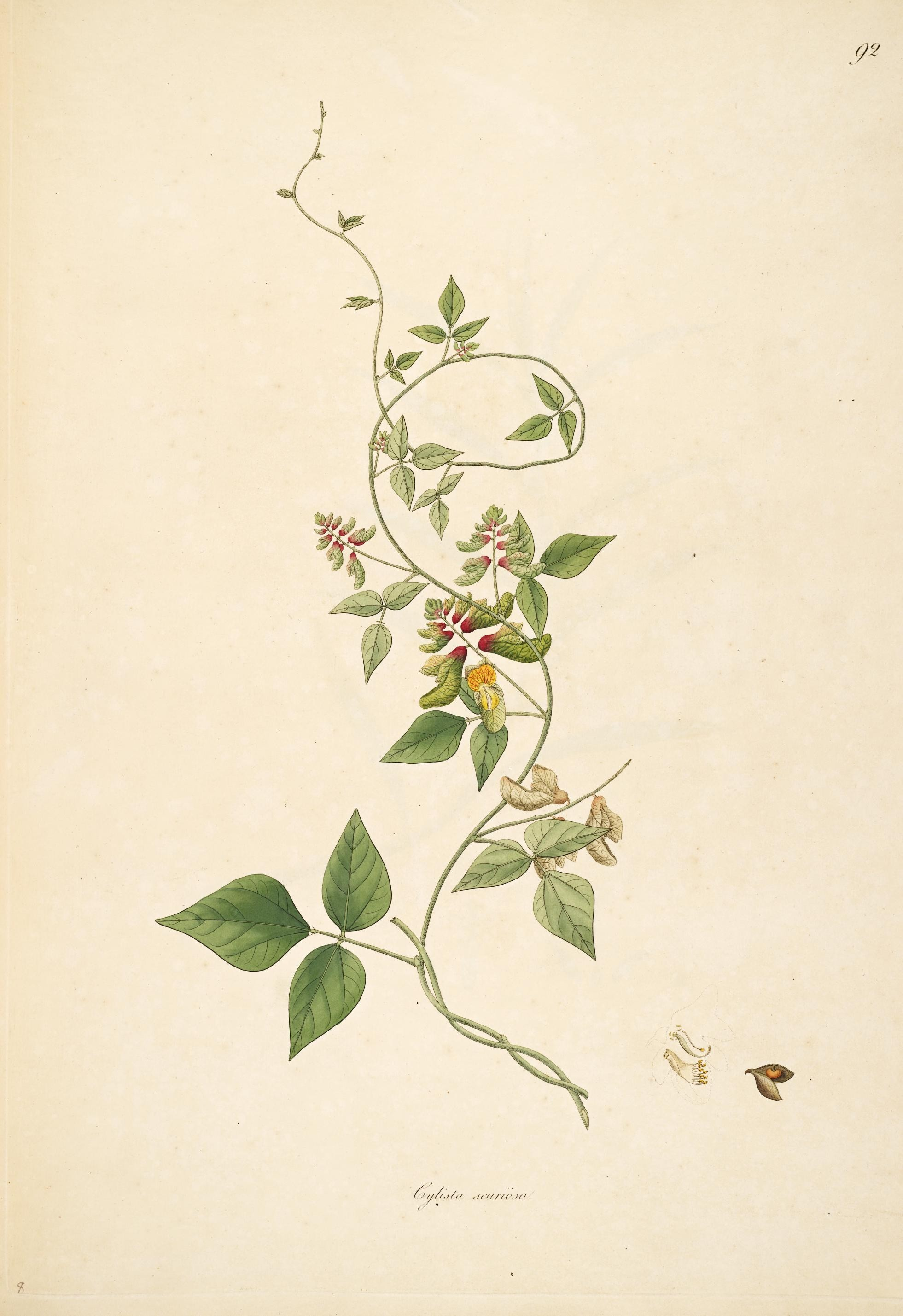 For this 1795 publication with detailed text description on flora in India, see William Roxburgh, Plants of the coast of Coromandel - Volume 1 Coromandel coast stretches from Tamil Nadu to Andhra Pradesh states of India The scientific botanical name is at the bottom of the illustration plate. This 18th century illustration qualifies for PD-Art license of wikipedia